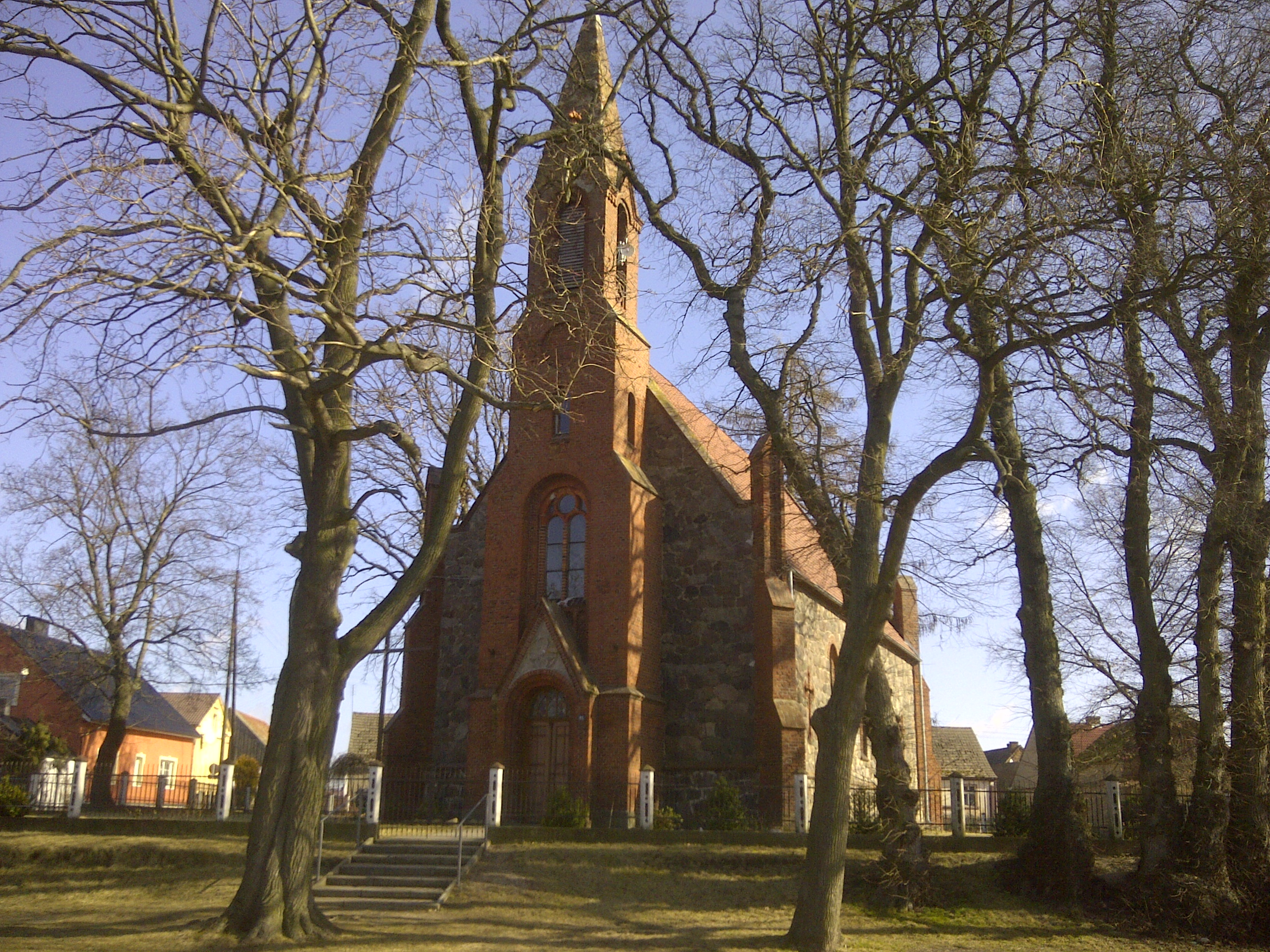 The church of Trzebów